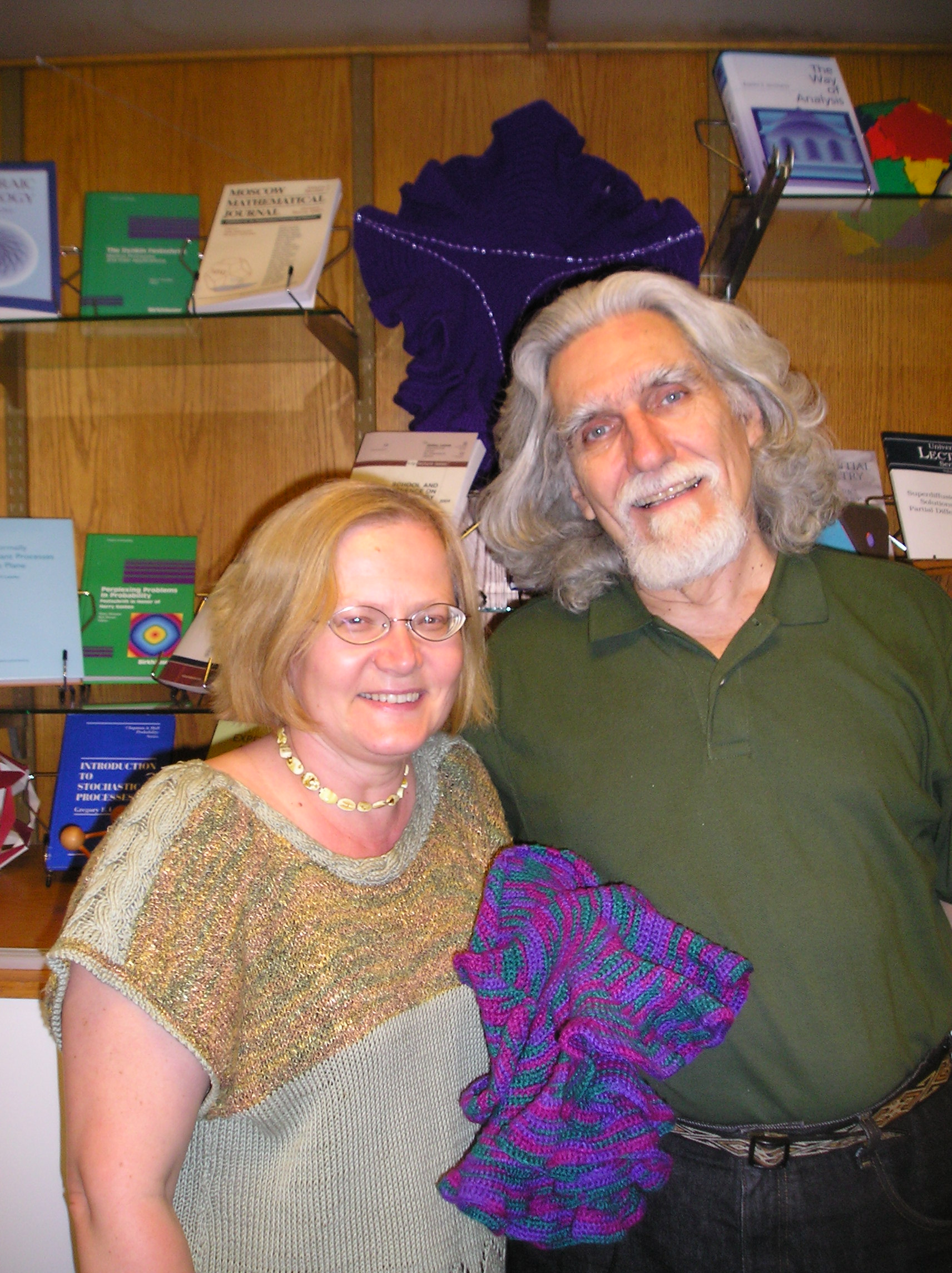 Picture of latvian mathematician Daina Taimina, her husband geometer David W. Henderson and crocheted hyperbolic plane